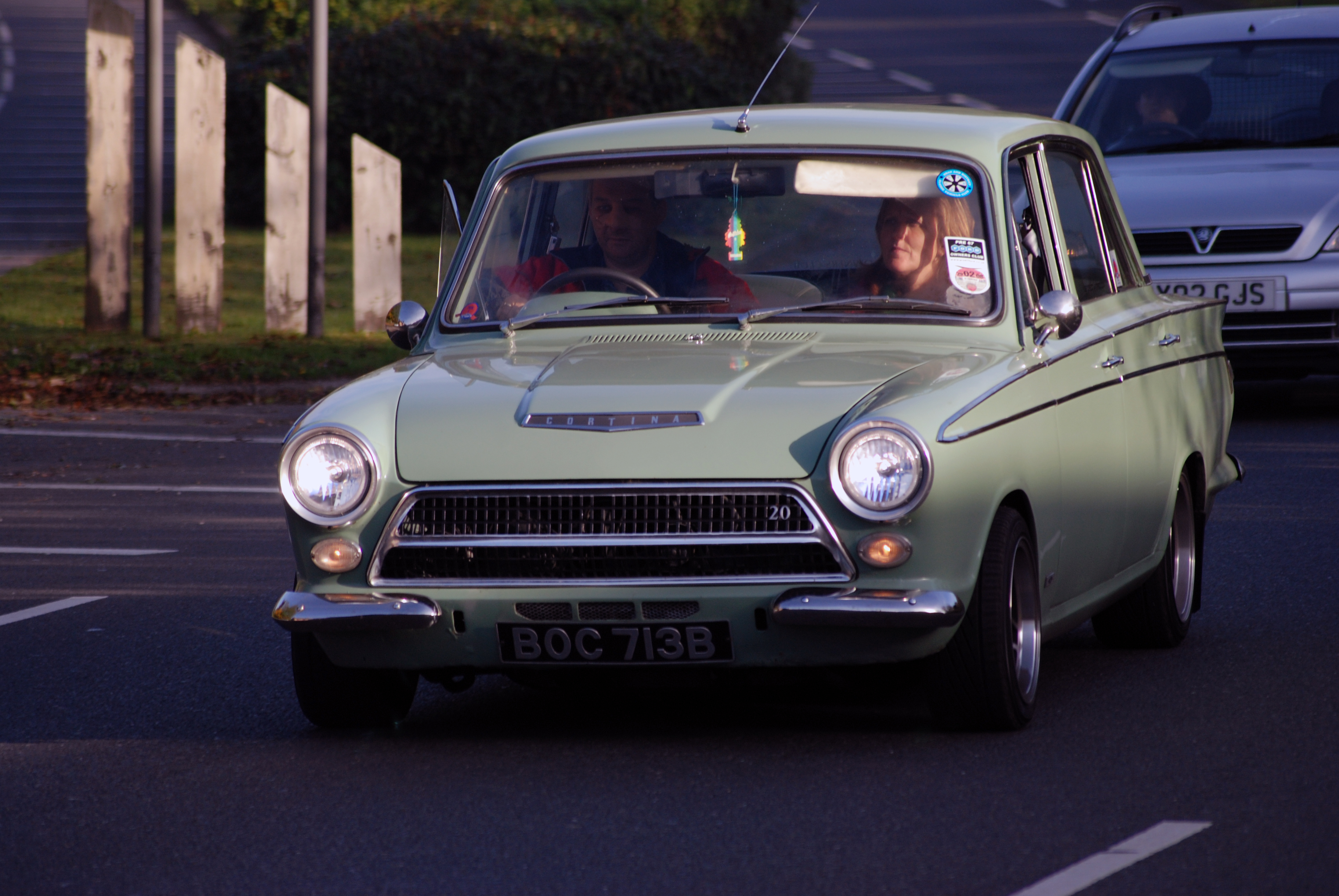 A23 Merstham,Nov 2007